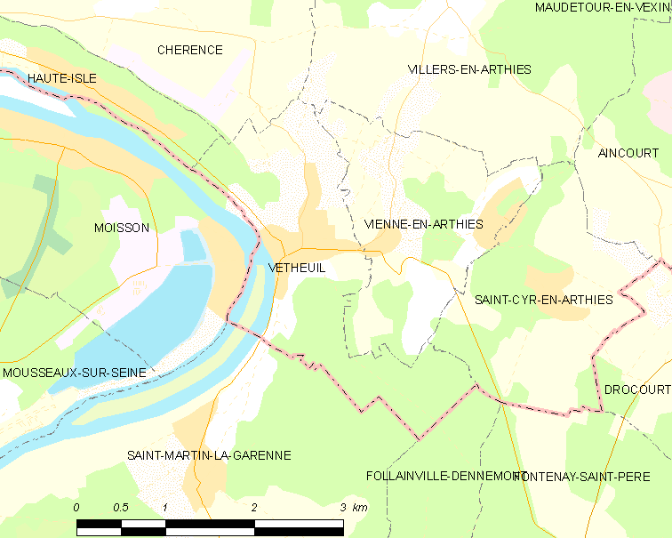 Map of French municipality Vétheuil